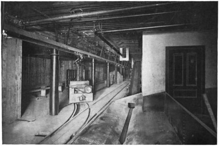 Original caption: "TYPICAL DISTRIBUTING STATION -- CHICAGO." Newly constructed coal delivery facilities in the basement of a building in the Chicago Loop served by the Illinois Tunnel Company (later, the Chicago Tunnel Company). Bruce Moffat identifies the location as "a building on the north side of Monroe between Wells and LaSalle that was occupied by the Illinois Telephone Construction Company."